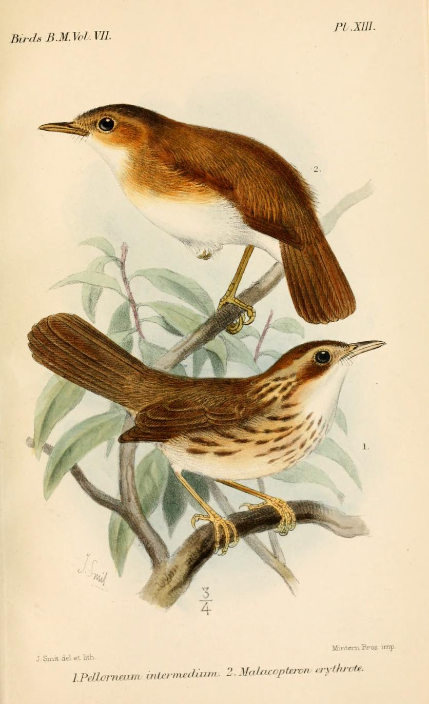 Pellorneum intermedium = Pellorneum ruficeps, Puff-throated Babbler (below); and Malacopteron erythrote = Trichastoma pyrrogenys, Temminck's Babbler (above)